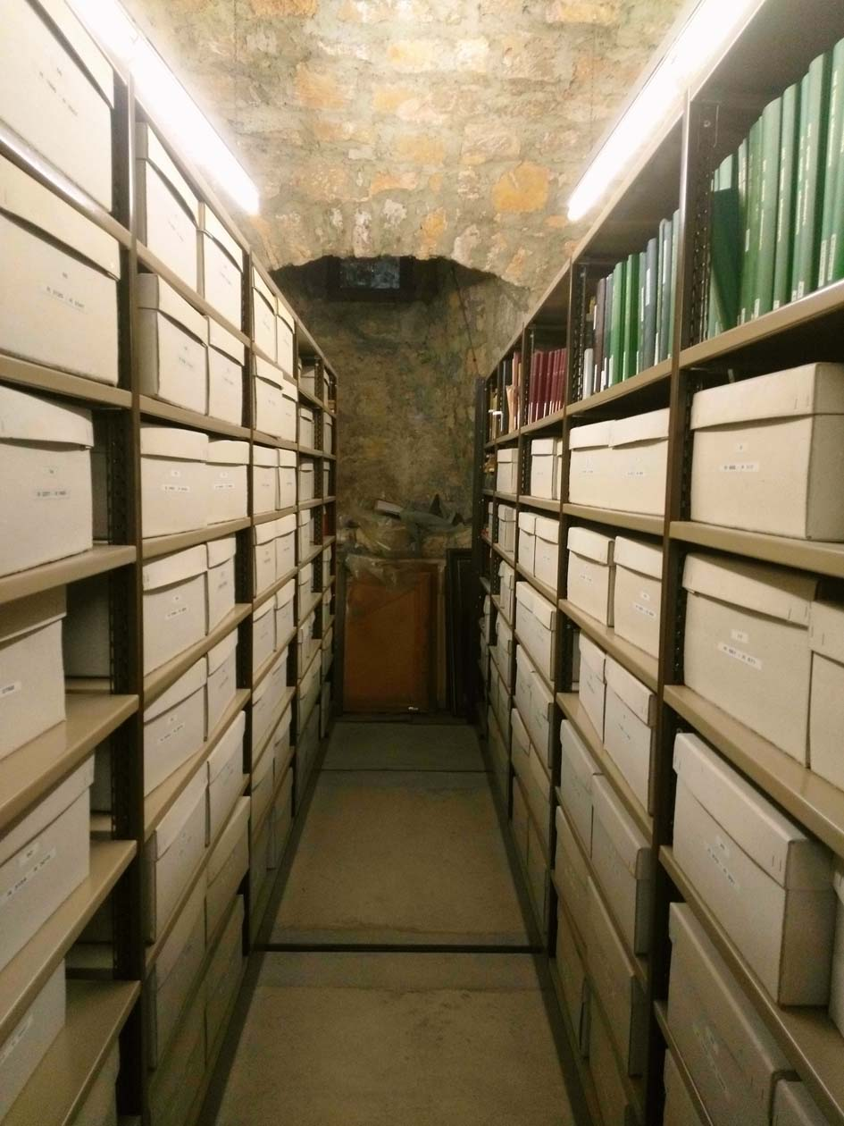 shelves in the archive of the city of Bad Neustadt (Germany)